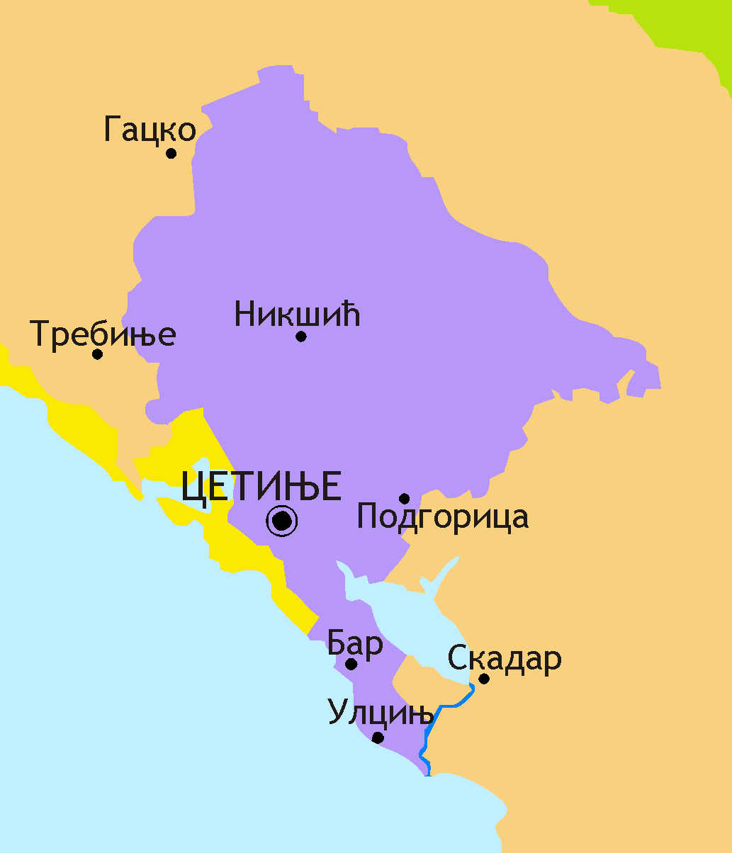 Princedom of Montenegro after Congress of Berlin in 1878.